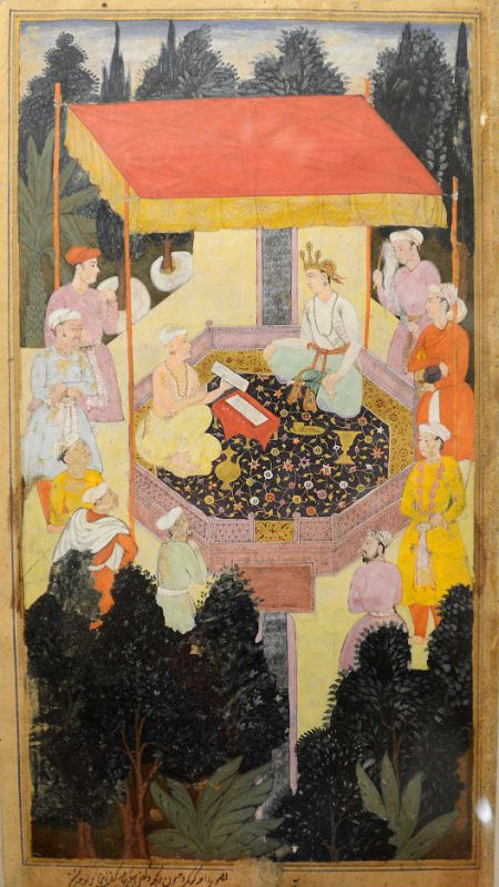 Mahabharata